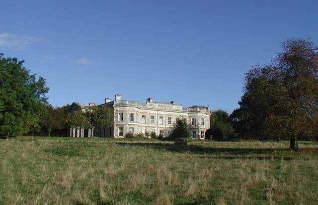 Kilnwick Percy Hall, Kilnwick Percy, East Riding of Yorkshire, England, seen from the south.